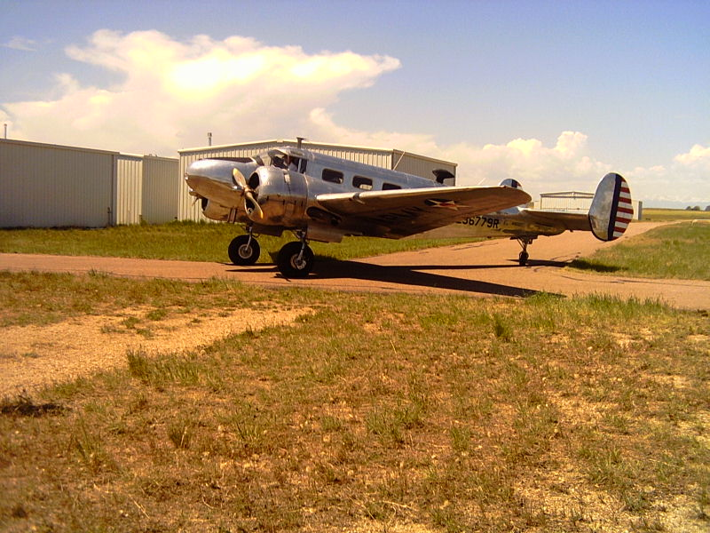 A C-45H/AT-7, Commemorative Air Force, taken at Platte Valley Airport, Hudson, Colorado. Flying up until July 19, 2007 crashed at Longmont, Colo. Crew survived. Photo for public use, taken by Lance Barber, Aurora, Colo. Request "Courtesy of" line for outside Wikipedia usage. Thank you.